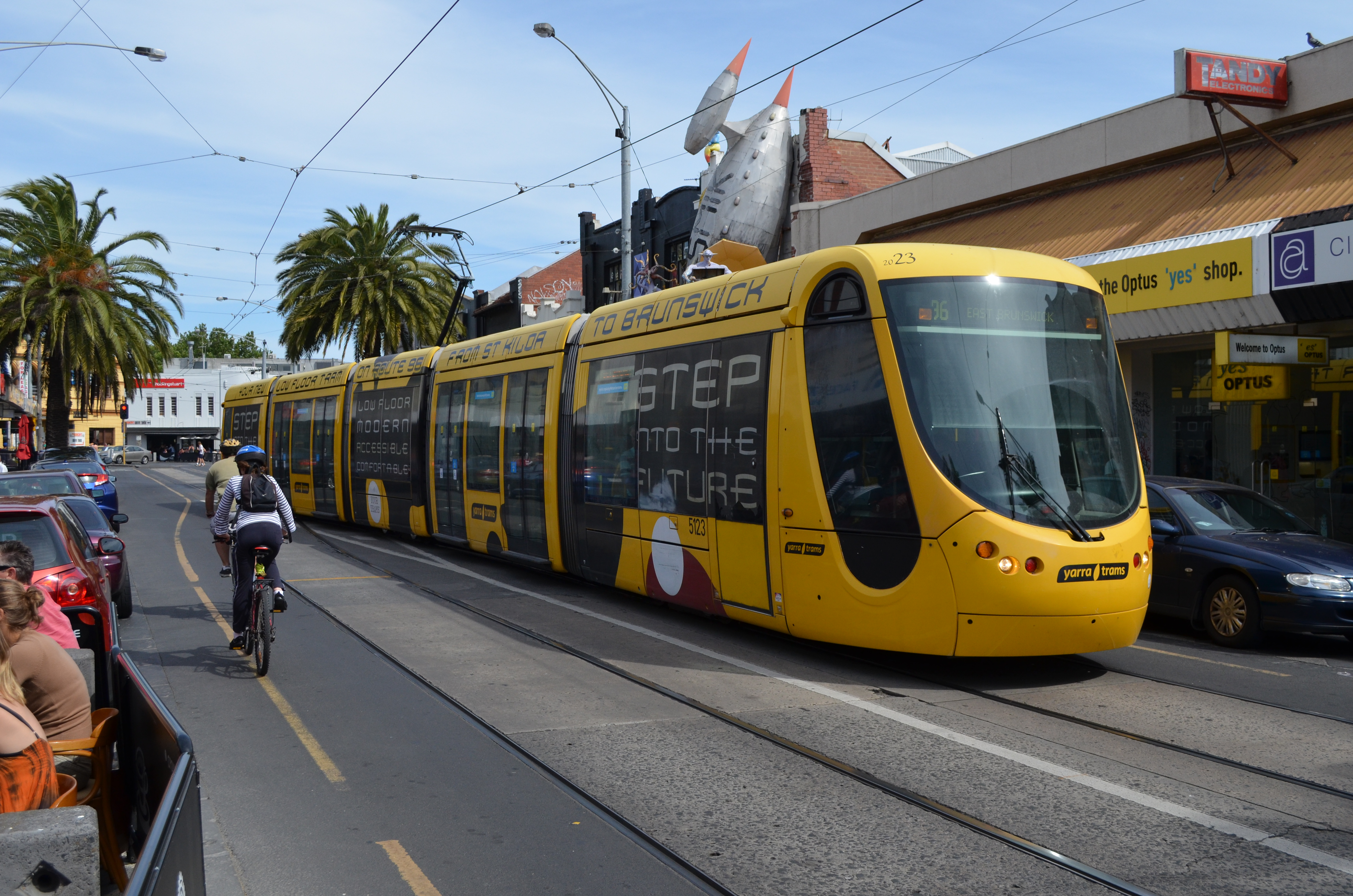 C2 class Citadis tram no 5123 departing from the Acland Street terminus in St Kilda with a route 96 service from St Kilda Beach to East Brunswick in Melbourne, Australia. This particular tram was the first of its class to enter service in Melbourne.